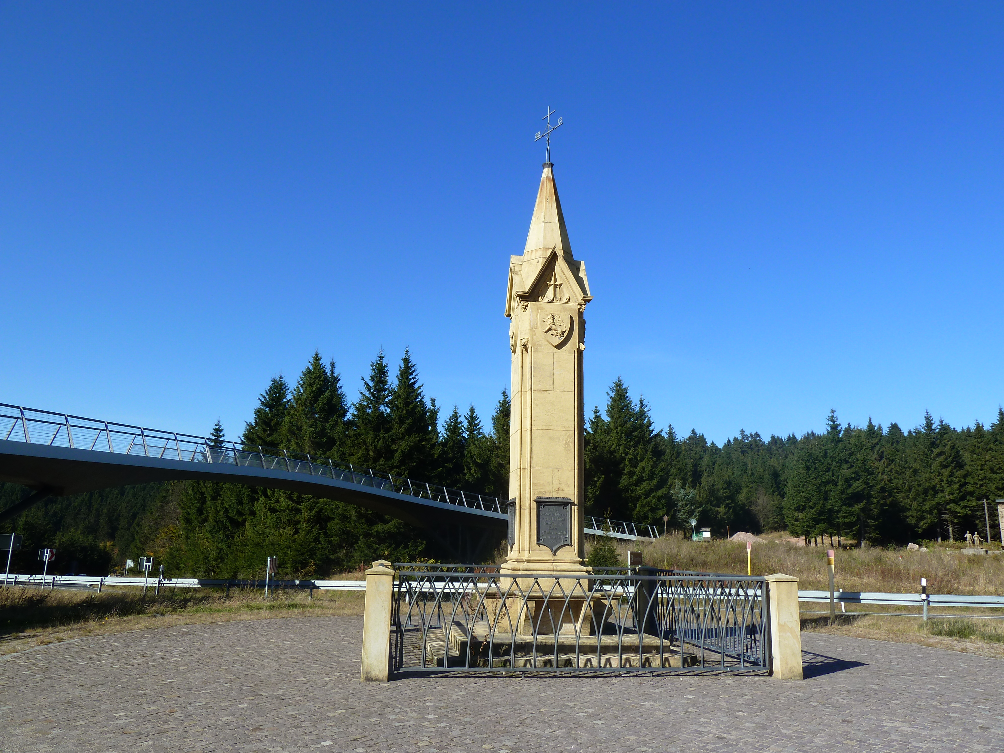 Rondel near Oberhof